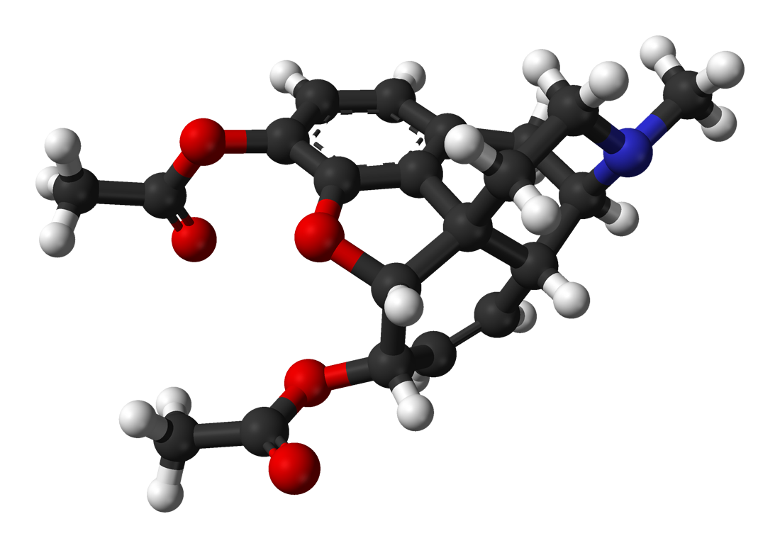 Ball-and-stick model of the heroin molecule, as found in the crystalline state. X-ray crystallographic data from D. Canfield, J. Barrick, B. C. Giessen (November 1979). "Structure of diacetylmorphine (heroin)". Acta Cryst. B35 (11): 2806-2809. Model constructed in CrystalMaker 8.1. Image generated in Accelrys DS Visualizer.